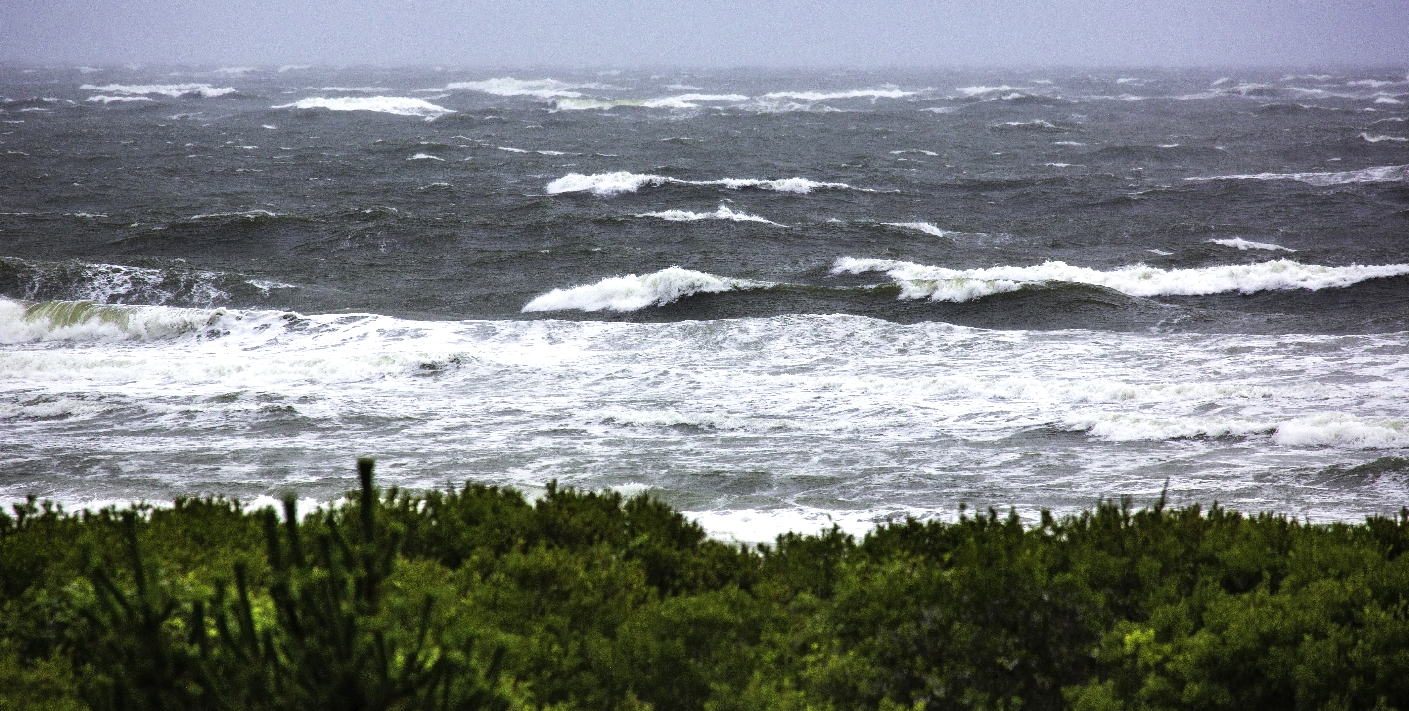 Hurricane Florence is still hundreds of miles away, but the surf is already churned up. This was taken in New Jersey.